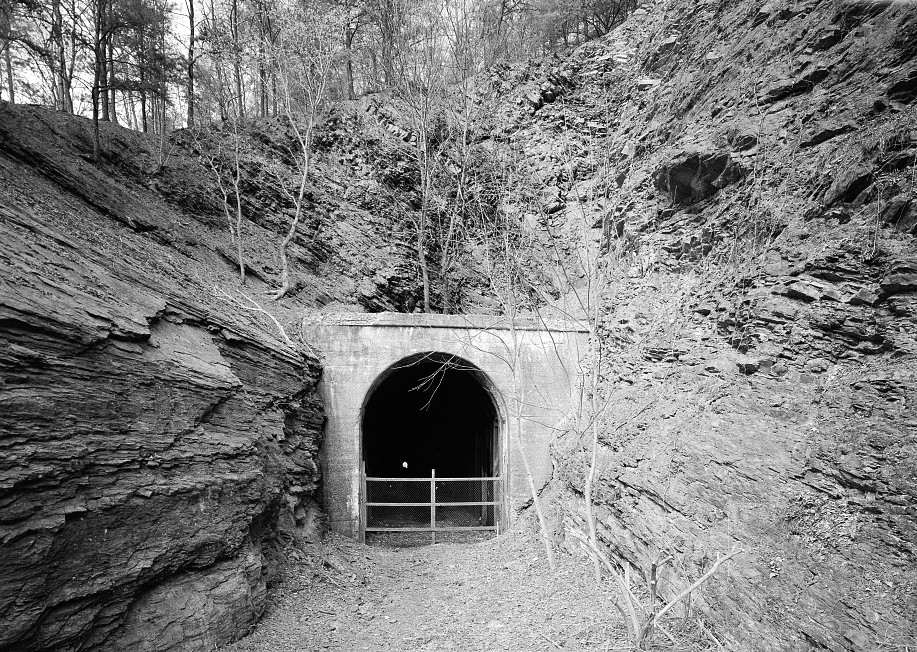 West portal of Tunnel No. 1356, Stick Pile Tunnel, looking northeast. - Western Maryland Railway, Cumberland Extension, Pearre to North Branch, from WM milepost 125 to 160, Pearre, Washington County, MD.